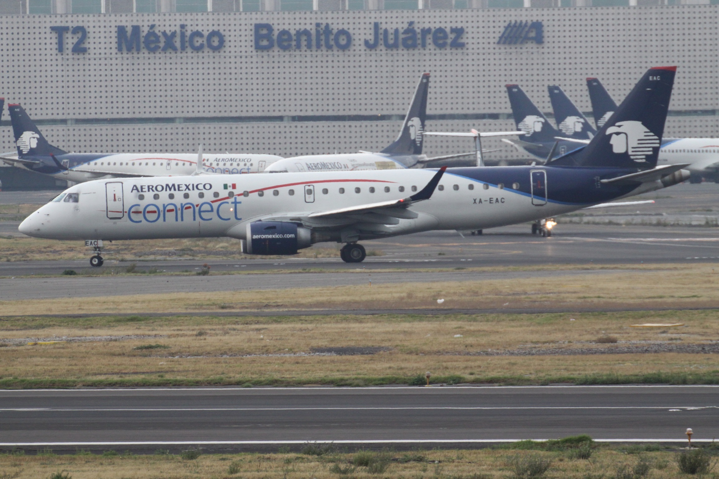 At Mexico City International Airport